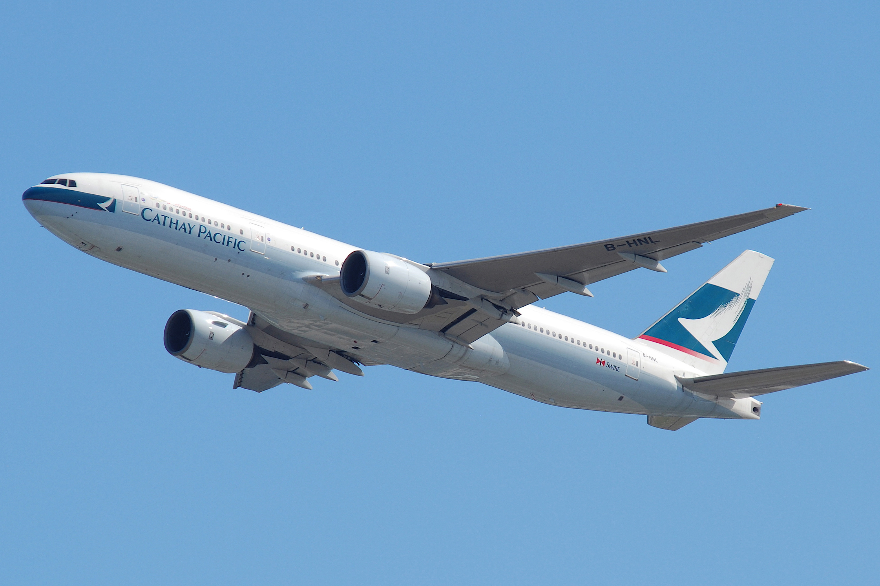 Cathay Pacific Boeing 777-200; B-HNL@HKG;31.07.2011/614sr